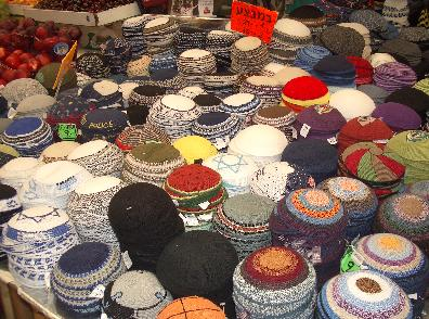 Yarmulkes on sale in Jerusalem, June 2004. Cebuano: Mga kipa. ייִדיש: קאפלעך. Ladino: Butíka de kipot en Yerushalayim, Israel.